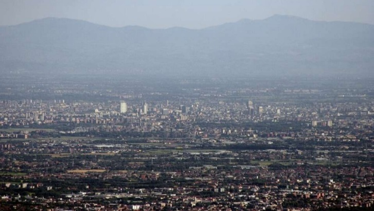 Panorama of Milan, Italy